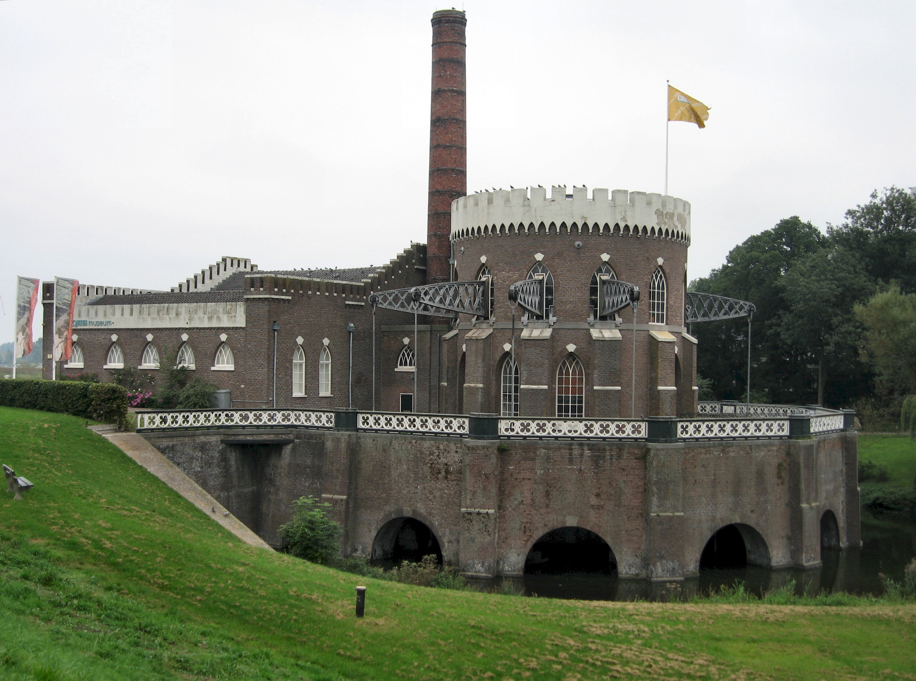 Pumping engine Cruquius in Haarlemmermeer